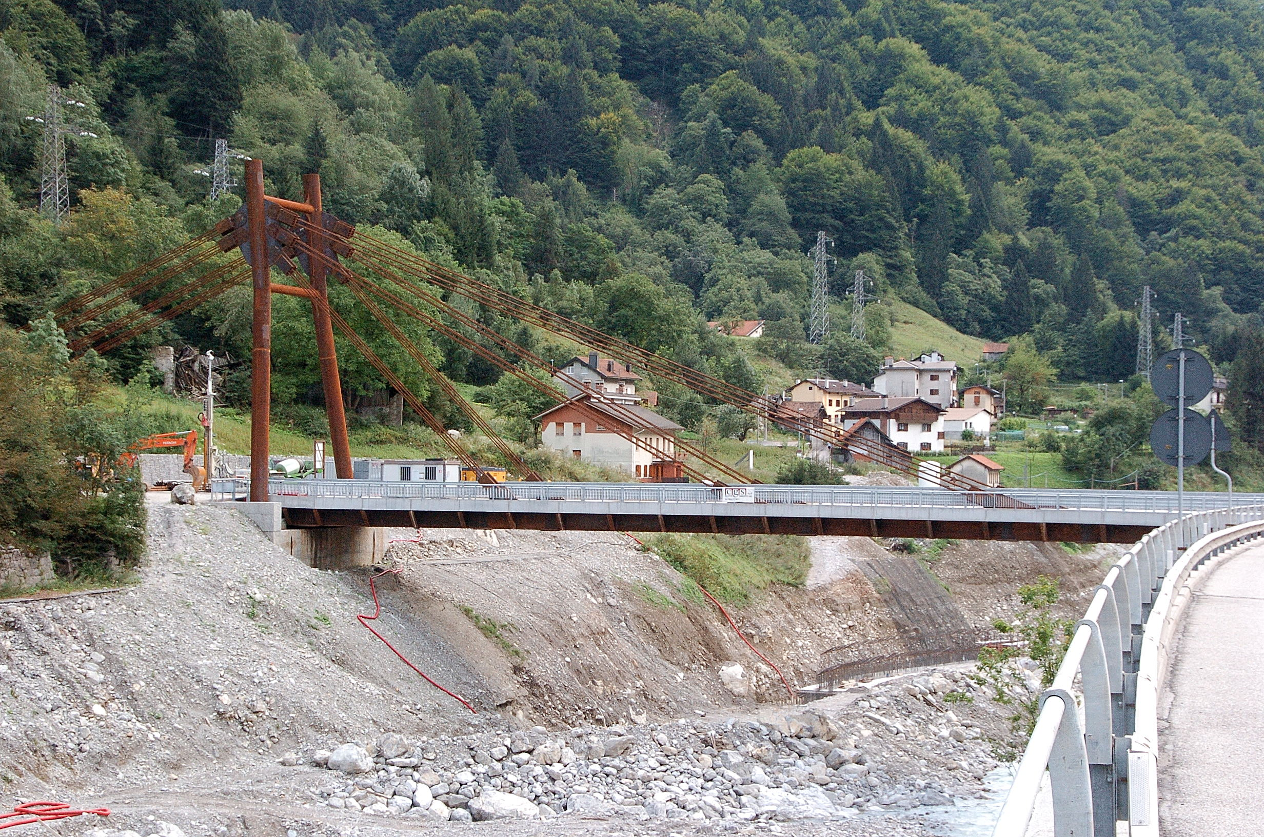 New road-bridge (steel-construction) across the Fella river in the Valley “Canal del Ferro” near Pietratagliata in the community Dogna, province of Udine, Friuli-Venezia- Giulia, Italy